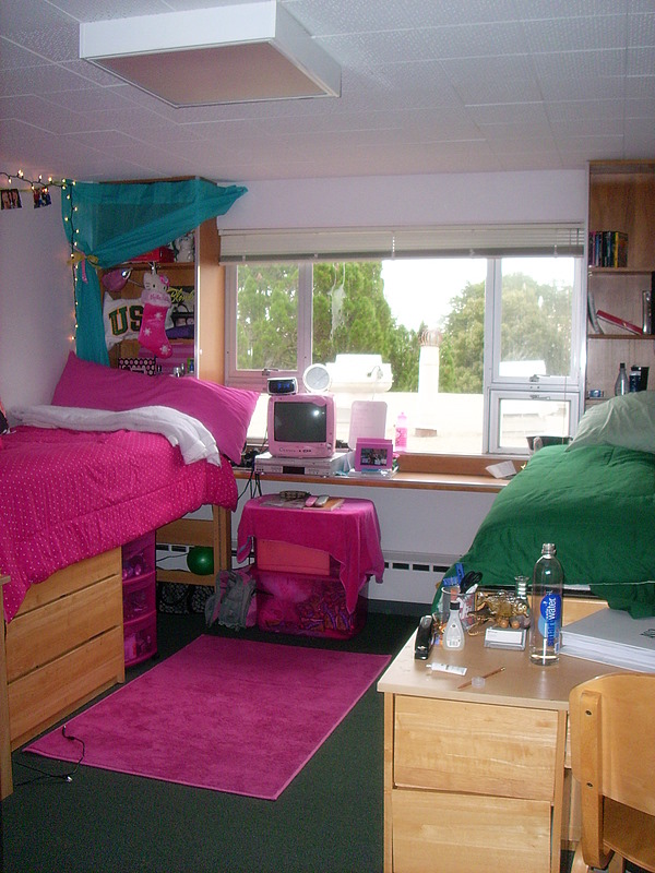 Fromm dorm room, University of San Francisco